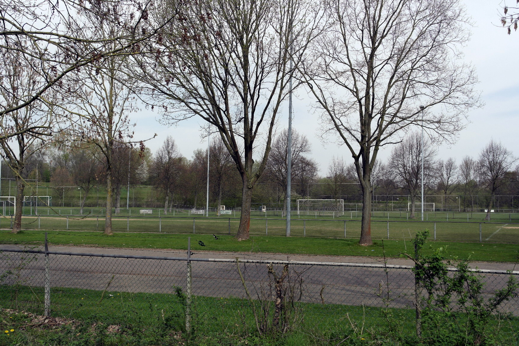 Maastricht, the Netherlands. Soccer field on the western fringe of the Maastricht-West neighbourhood of Pottenberg.